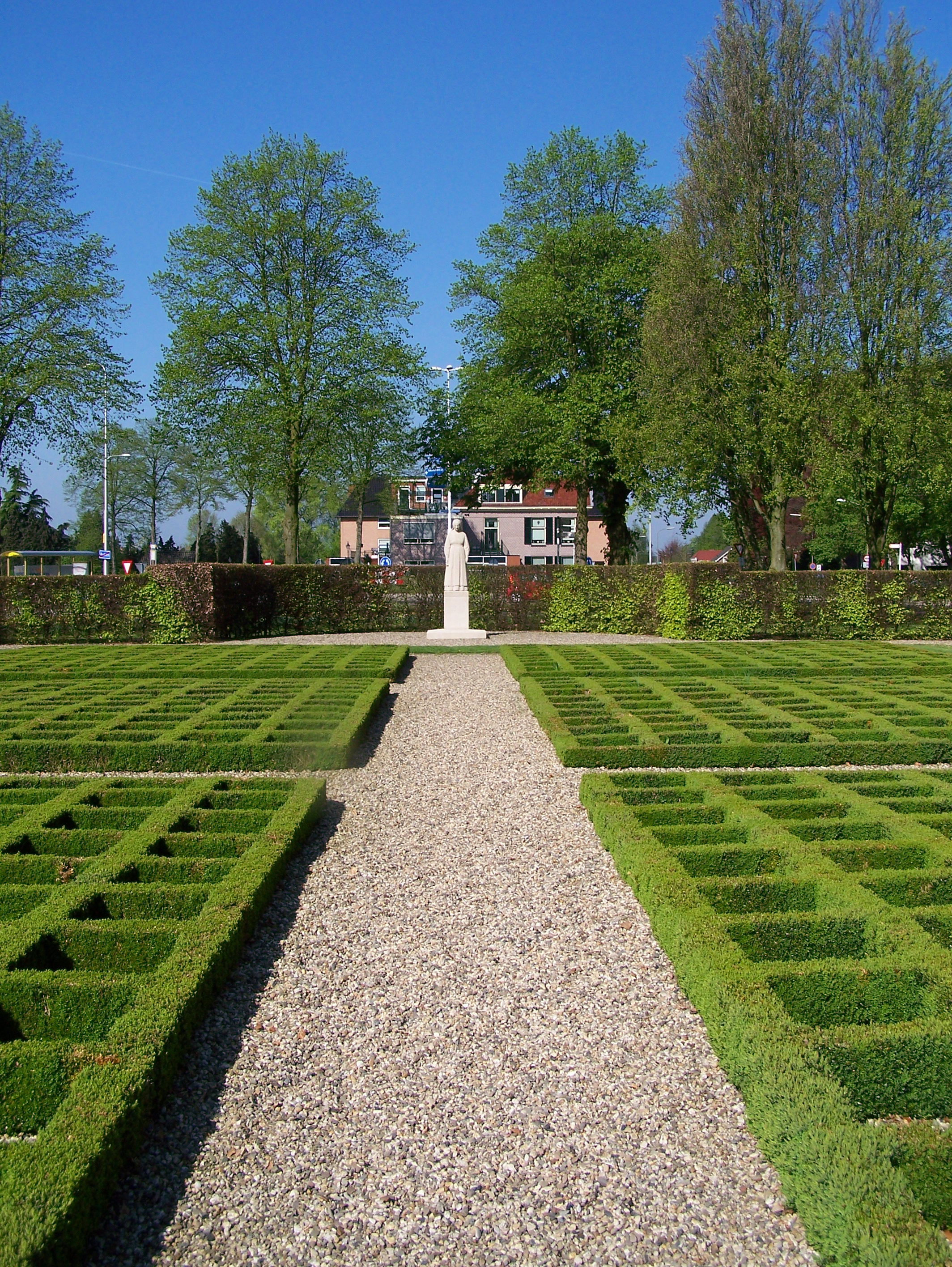 Memorial of Putten. Sculpture made by Mari Andriessen in 1949. Placed at the corner of the Dorpsstraat/Oude Rijksweg in Putten. The garden is a design by Jan P.T. Bijhouwer.